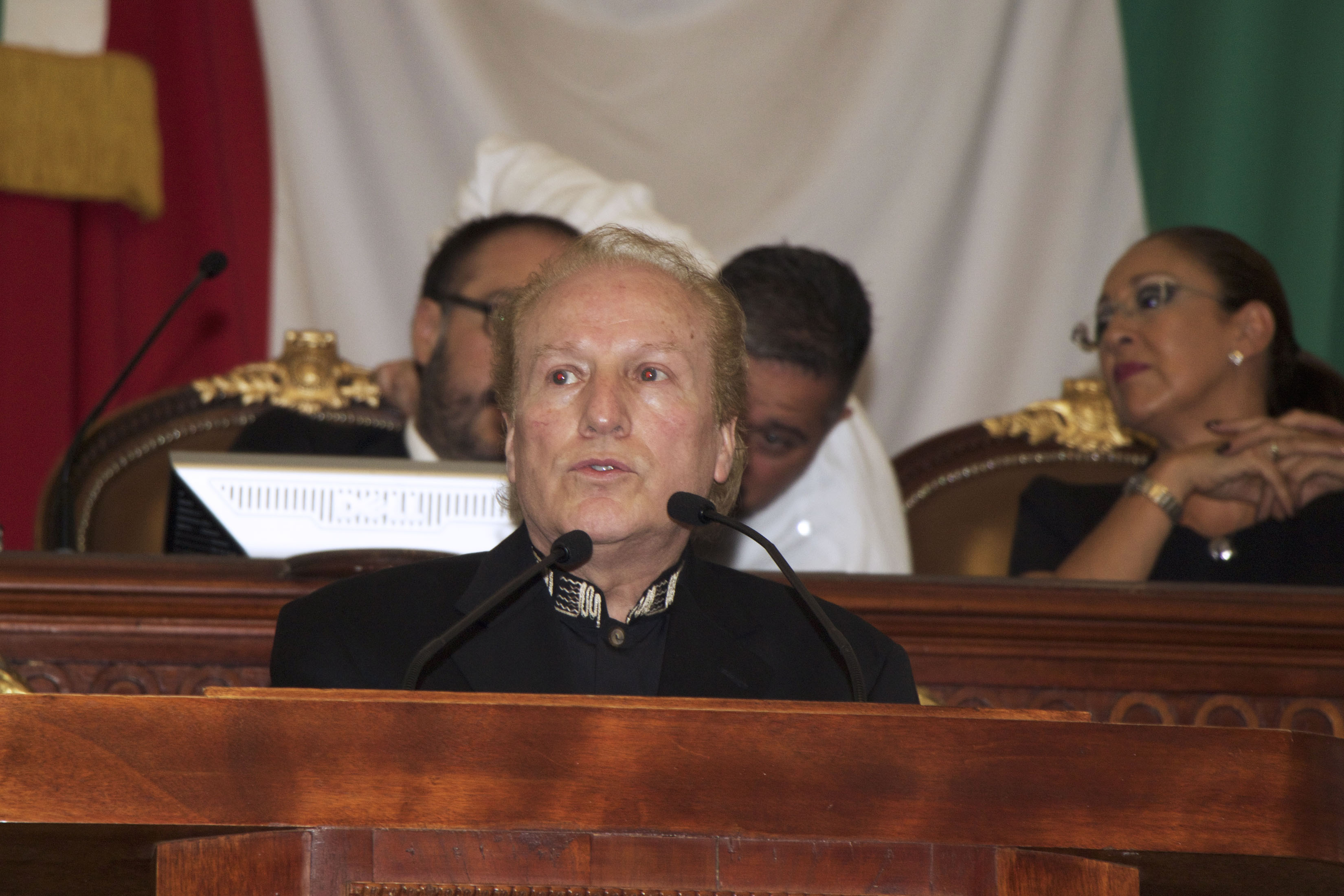 Conductor Enrique Diemecke receiving an award from Mexico City's parliament on Thursday, 18 May 2017. Picture by Milton Martinez / Secretaria de Cultura CDMX.